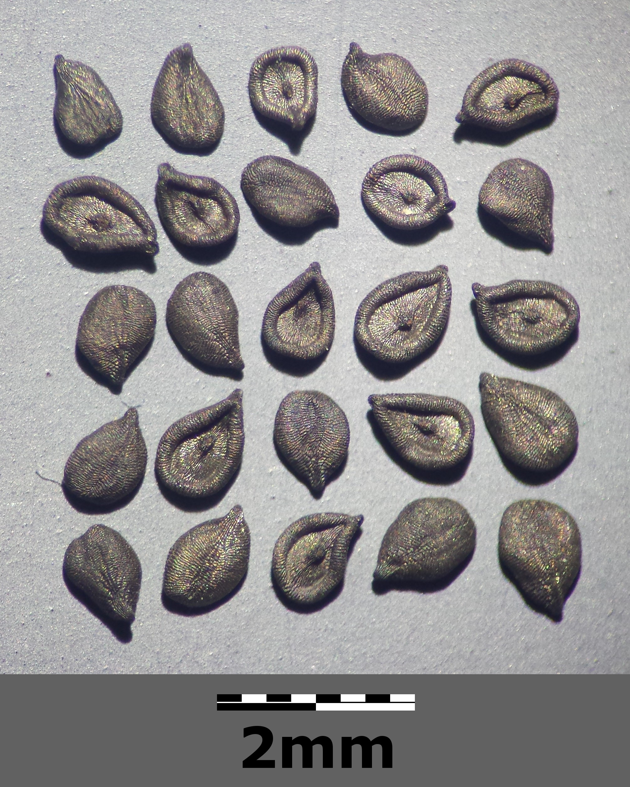 Seeds Taxon: Petrorhagia saxifraga (sensu Fischer et al. EfÖLS 2008 ISBN 978-3-85474-187-9) Location: Kleiner Wagram near Gerasdorf, district Wien-Umgebung, Lower Austria - ca. 170 m a.s.l. Habitat: semi dry grassland